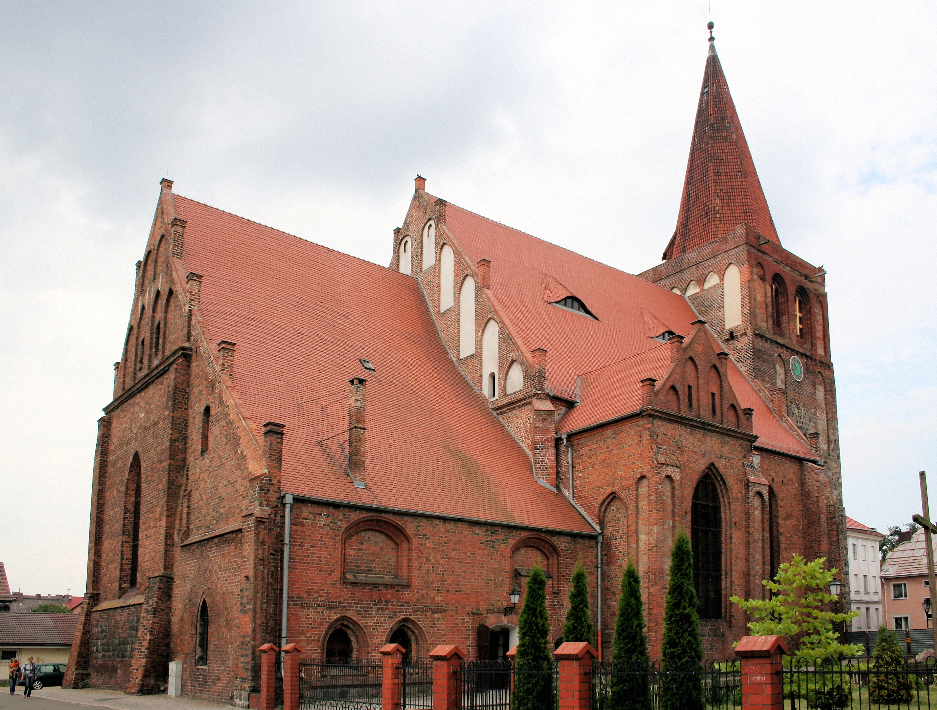 Collegiate church of John the Baptist, Myślibórz, Westpommern voivodeship, Poland